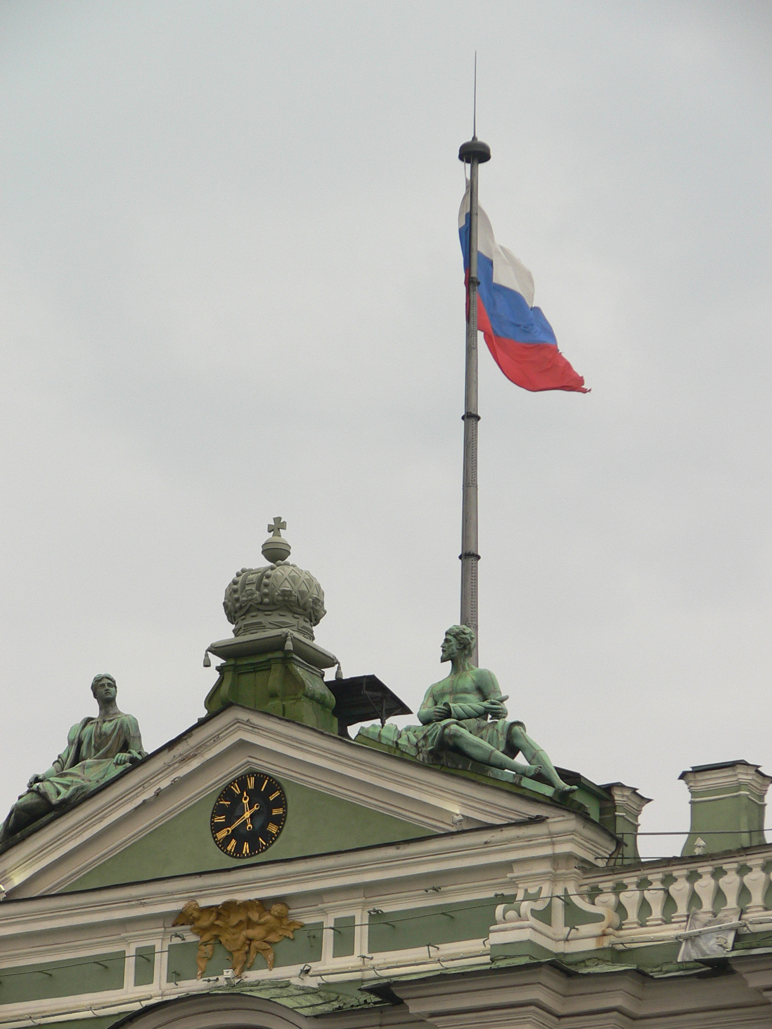 The Russian flag flying on top of the Hermitage in St. Petersburg. Orgingally at author of the image stated it is CC-SA.